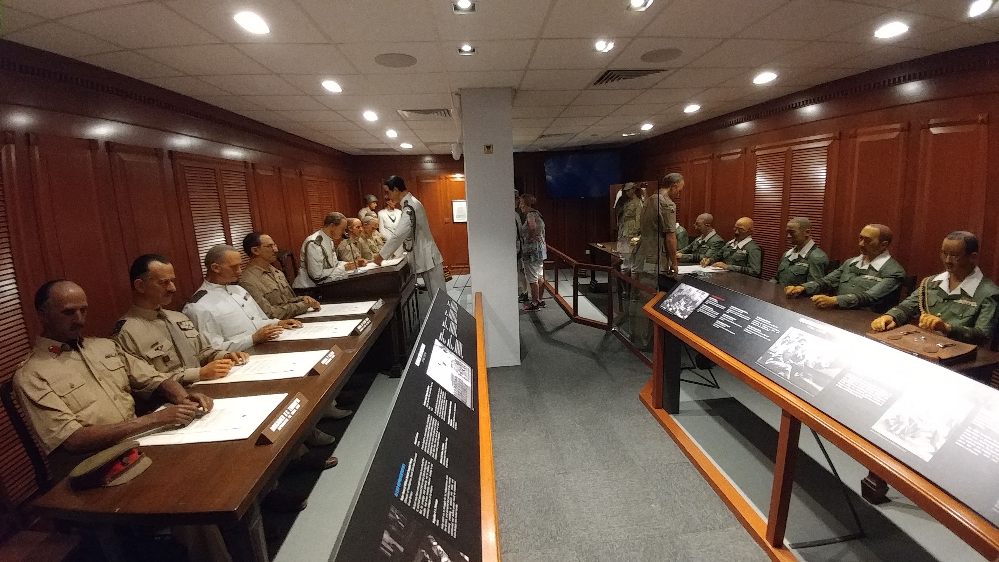 Waxworks display of the 2 Sep1945 surrender of the Japanese to the British in Singapore. The display is located within Fort Siloso in Sentosa Island.